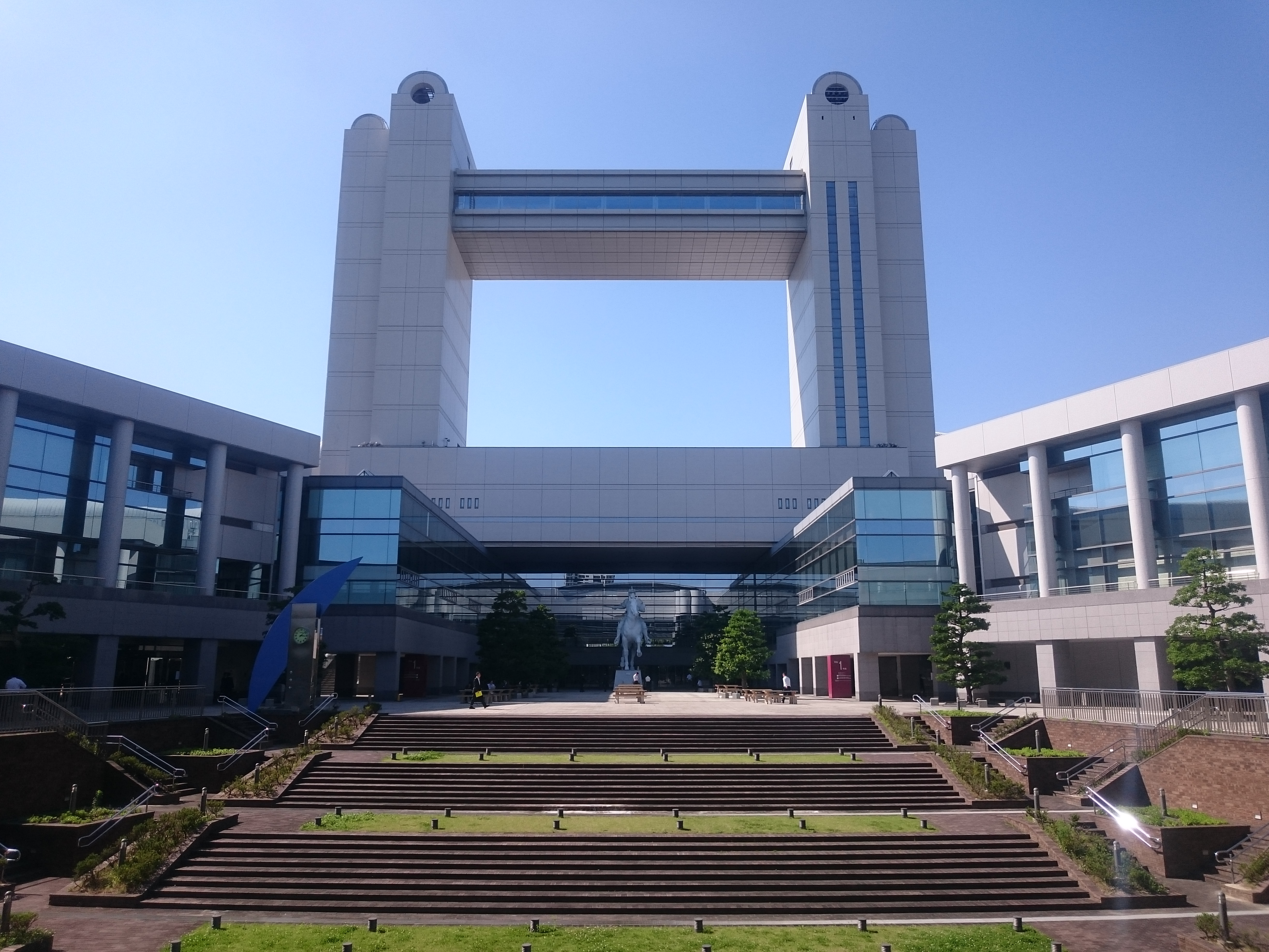 Nagoya Congress Center, at 1-1 Atsuta-nishimachi, Atsuta, Nagoya, Aichi, Japan